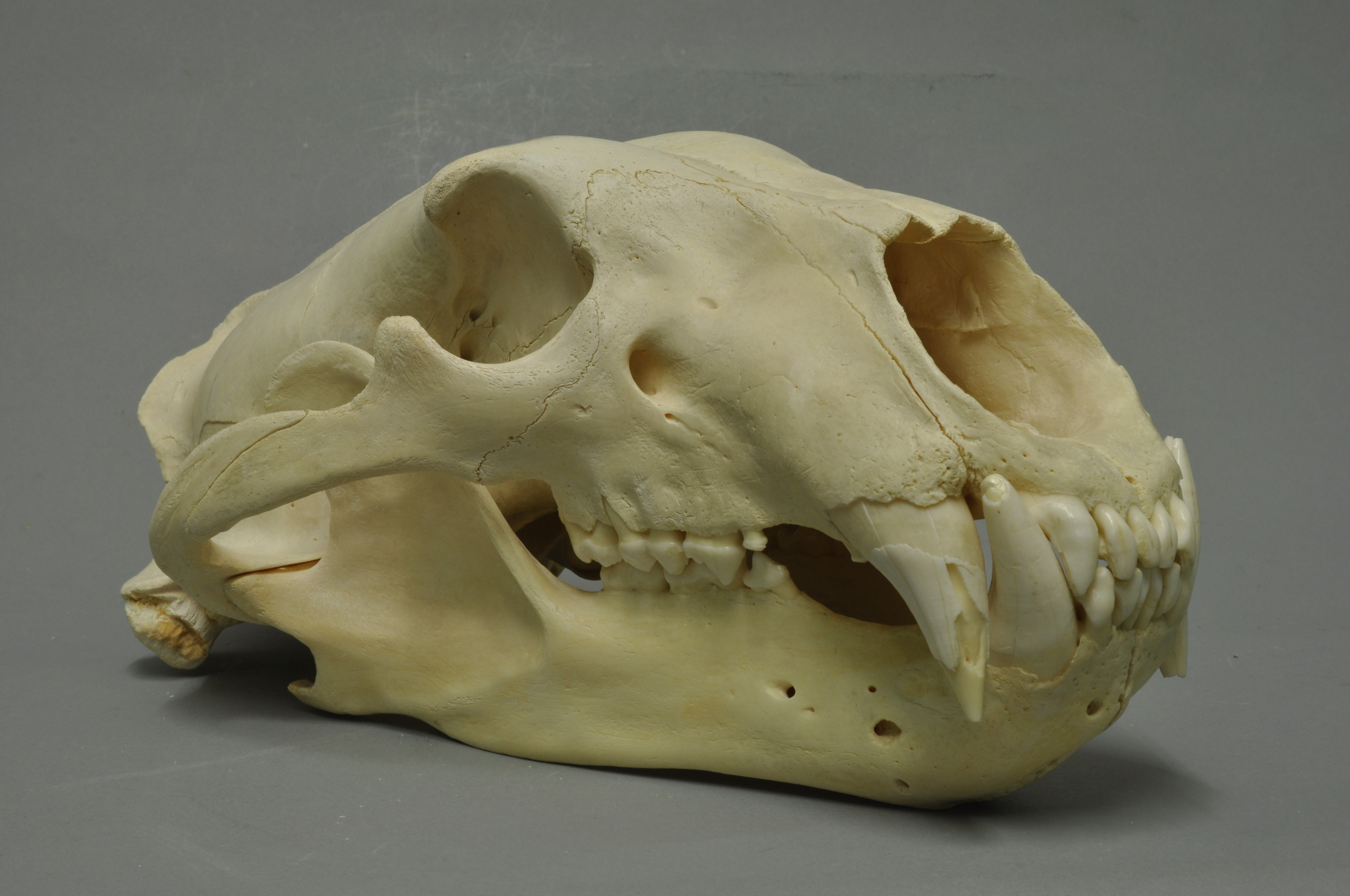 Polar bearUrsus maritimus , skull, Coll. Museum Wiesbaden